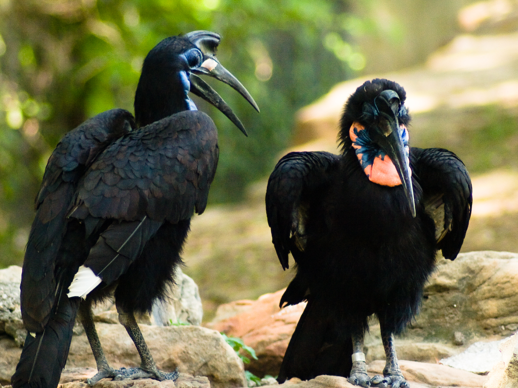 Abyssinian Ground Hornbill at Fort Worth Zoo, Texas, USA.